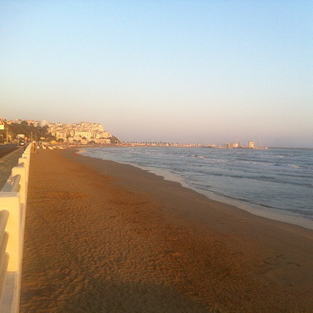 East Beach (Rodi Garganico), Apulia, Italy